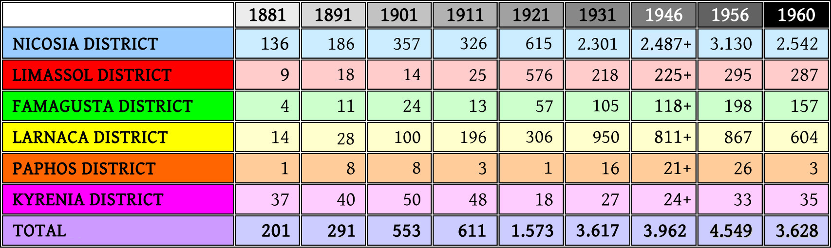 Table showing the Armenian-Cypriot population between 1881 and 1960.